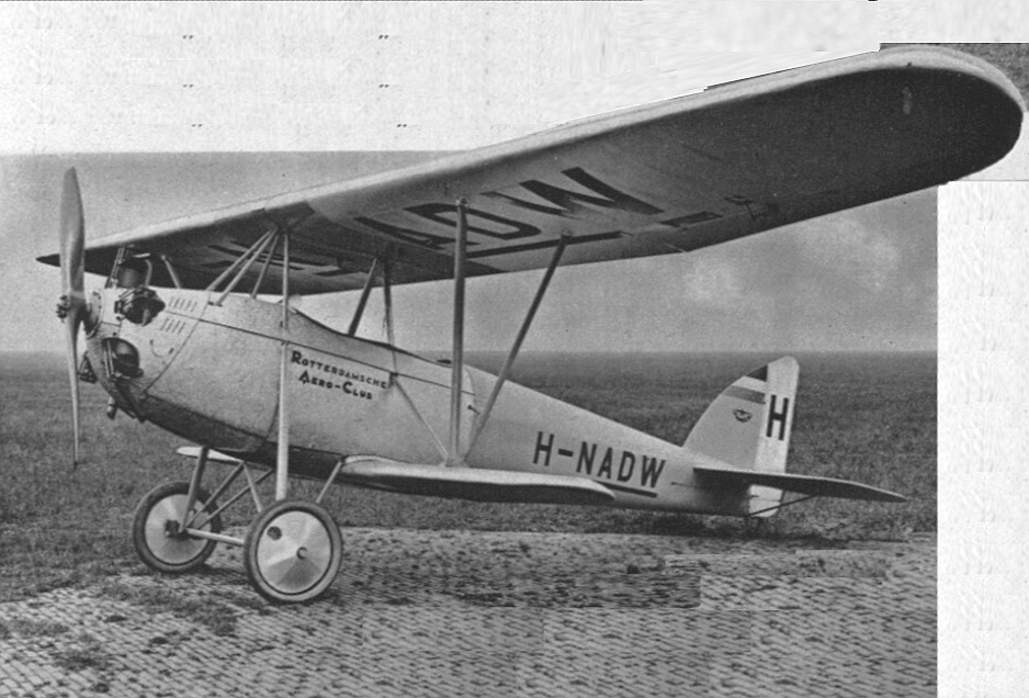 Walter NZ-60 and Pander EC60